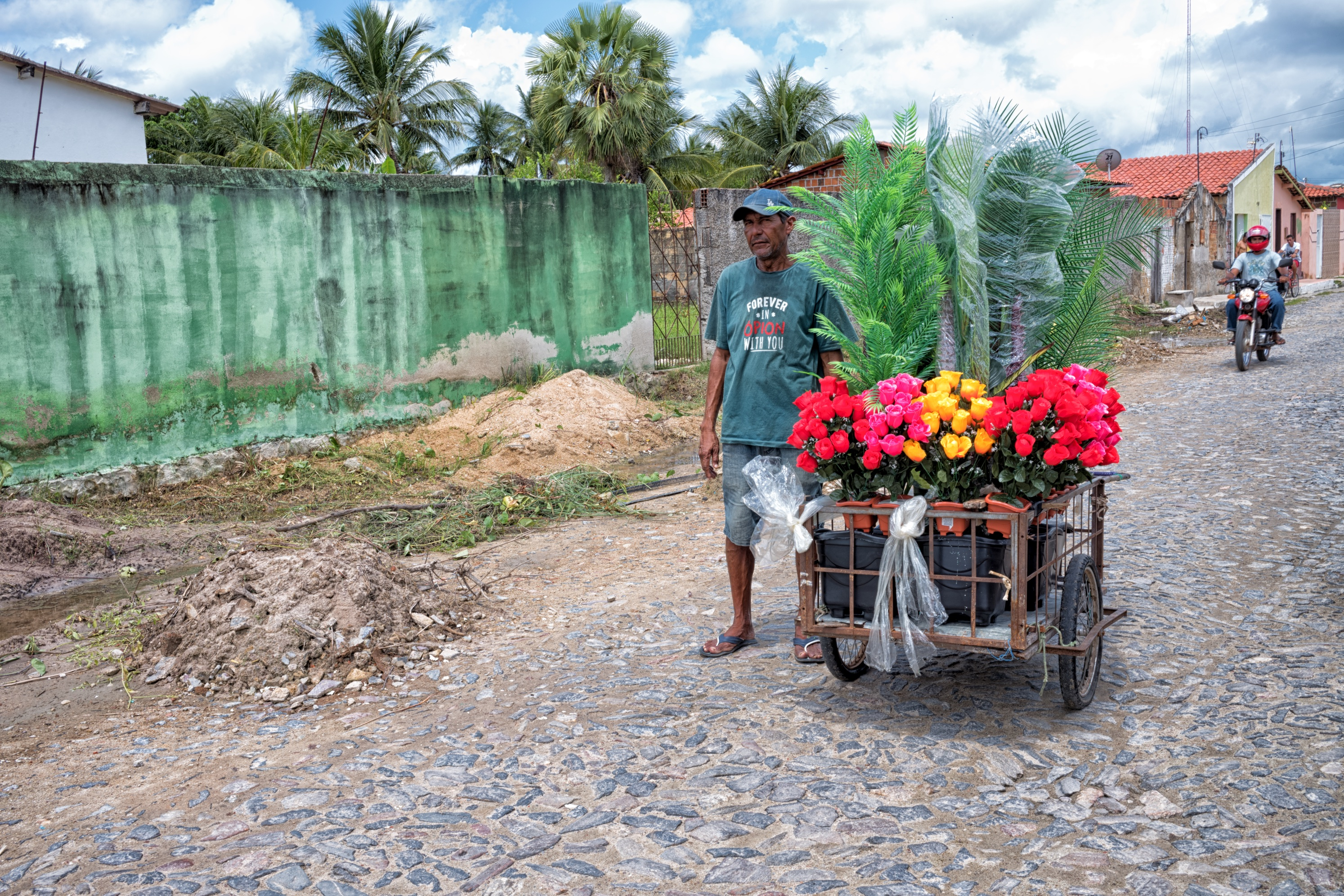 Chaval - CE-5